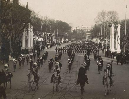 Indian chiefs headed by Geronimo in review before President Theodore Roosevelt on Inauguration Day in Washington, D.C.